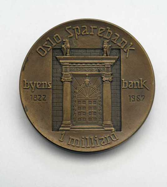 Medal for Oslo Sparebank by Øyvind Hansen (1967). Photo by Byhistorisk samling, Oslo Museum. DigitaltMuseum.